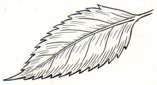 b/w photographs of an acuminate leaf